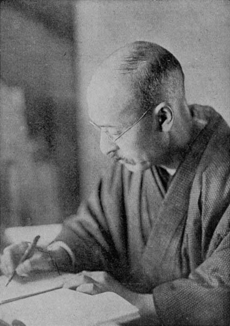 Mr. Tsunetarō Nannichi in his later life.